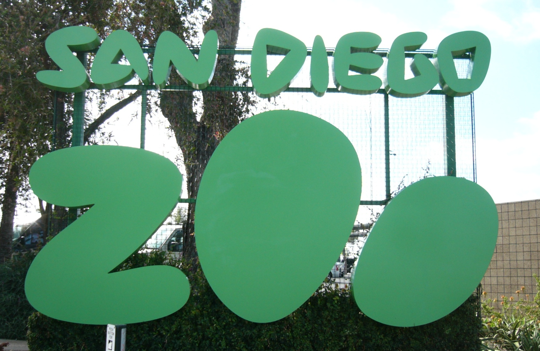 San Diego Zoo sign on street. Cropped slightly.